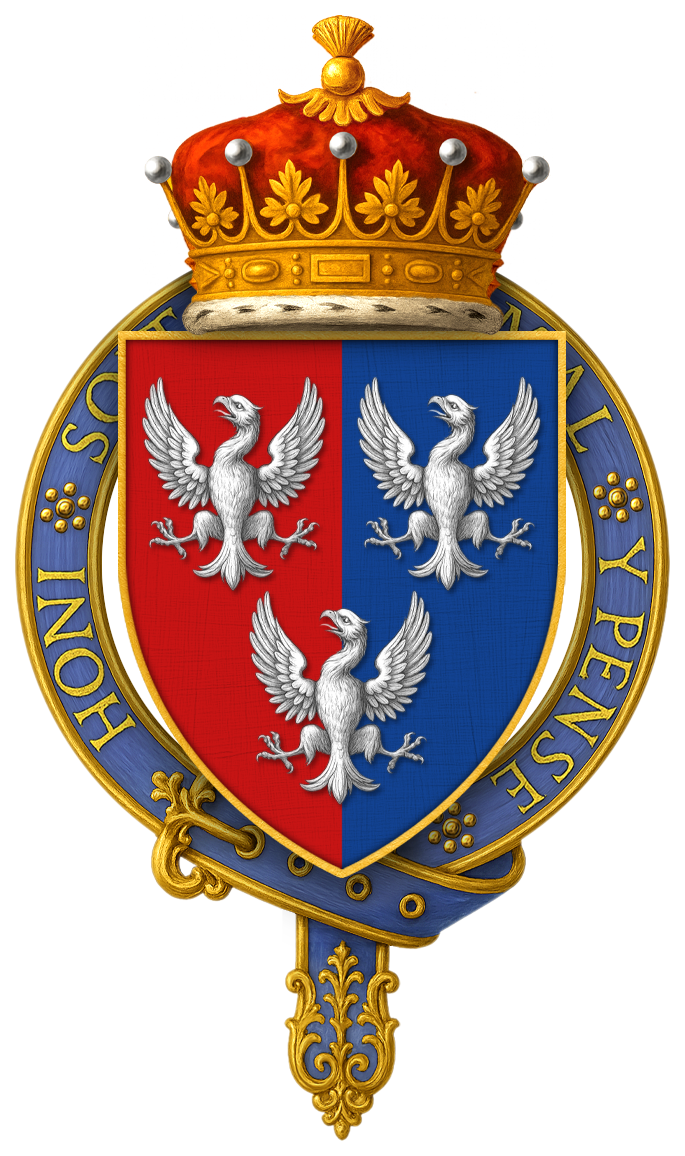 Coat of arms of Thomas Coke, 2nd Earl of Leicester, KG, DL